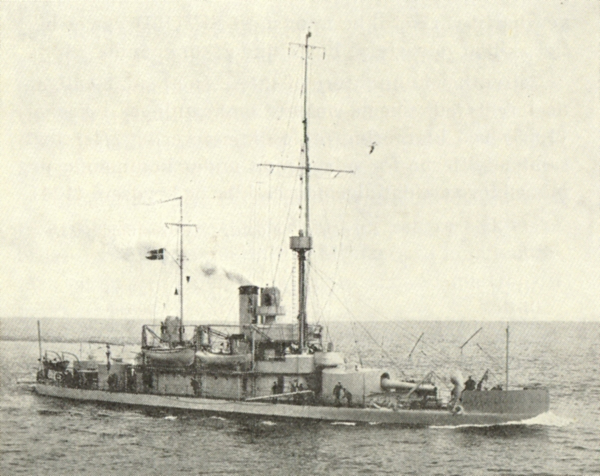 The Danish Coastal defence ship Skjold, photographed in 1912